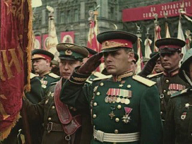 Red Army Major General Gleb Baklanov saluting during the 1945 Moscow Victory Parade. To his left, carrying the standard of the 1st Ukrainian Front, is top air ace Aleksandr Pokryshkin. (still from color film)